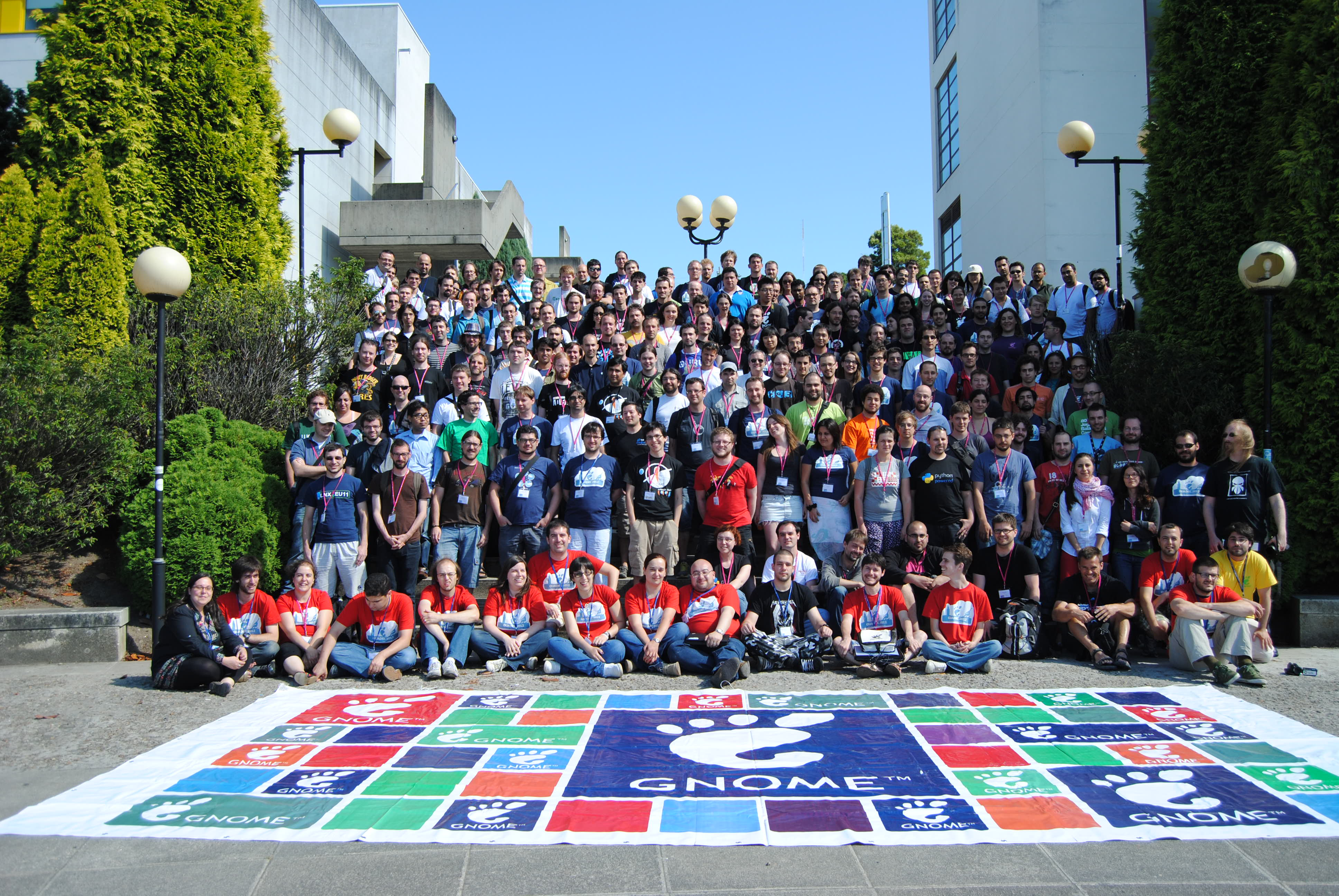 Guadec 2012 A Coruña July 26 -31 More info